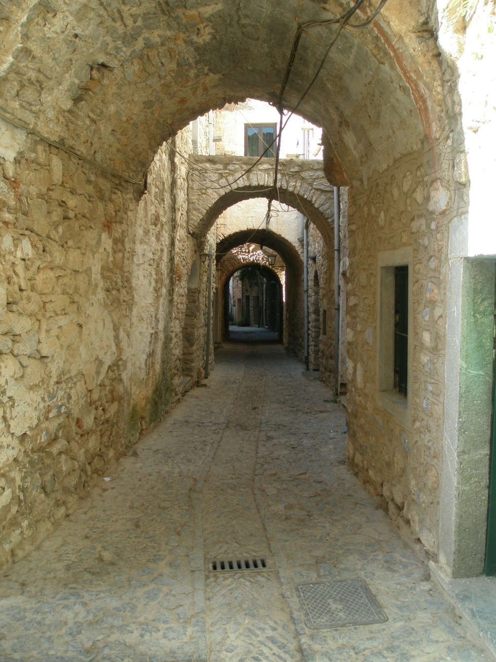 Typical street of Mesta at Chios island